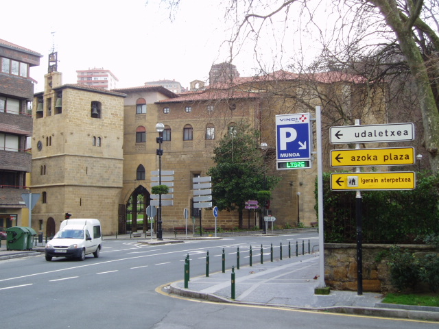 Tower of Zarauz (belfry) and Santa Maria la Real parish in Zarautz (Gipuzkoa).